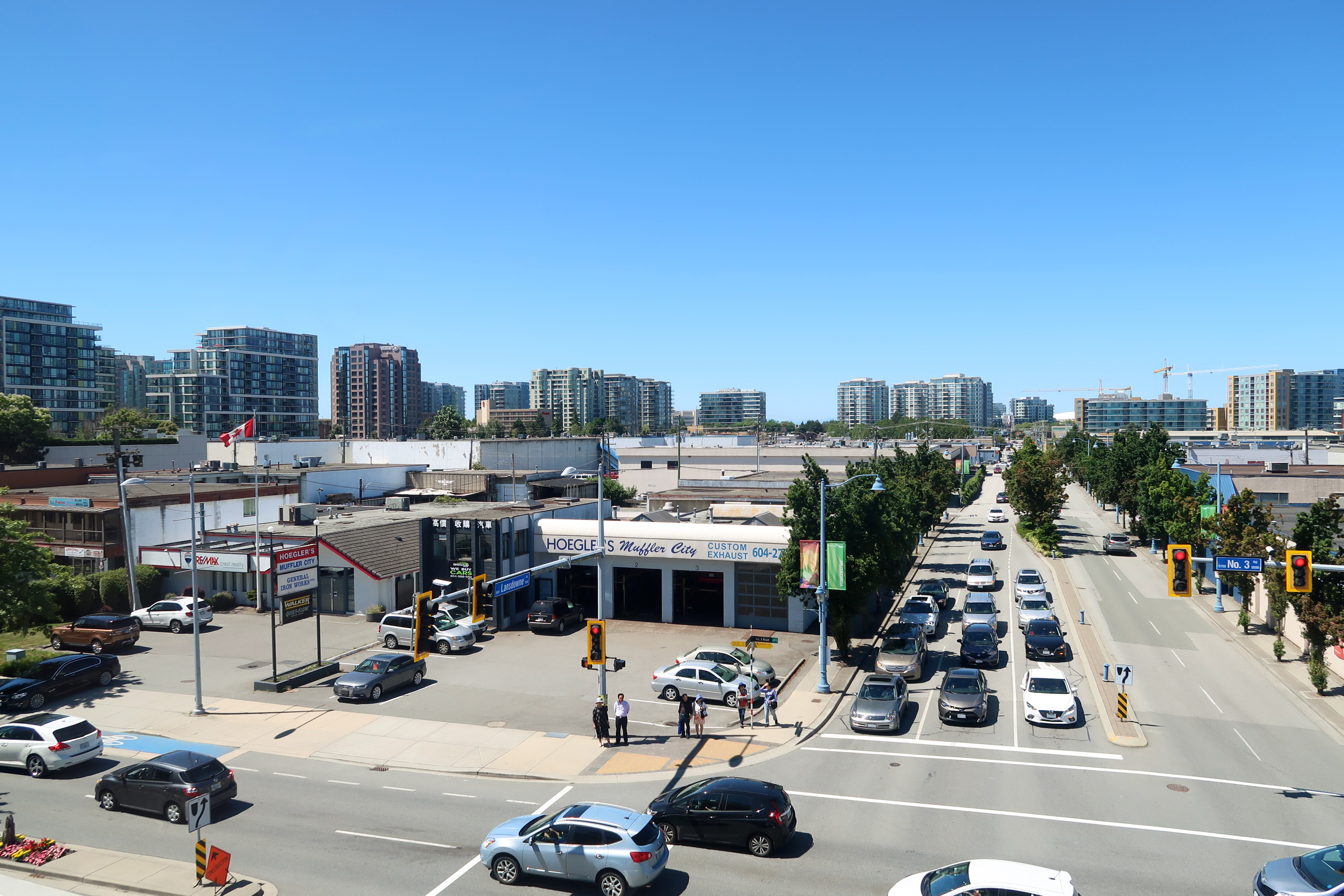 Richmond, BC. Taken near Lansdowne Station on the Canada Line of SkyTrain, near the intersection of No. 3 Road and Lansdowne, facing approximately west.